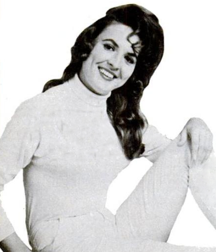 Trade ad for Melba Montgomery's single "What Can I Tell The Folks Back Home".To better adapt it to his respective Wikipedia article, the ad was cropped and cleaned in a graphics editing program. The original can be viewed at the source below.